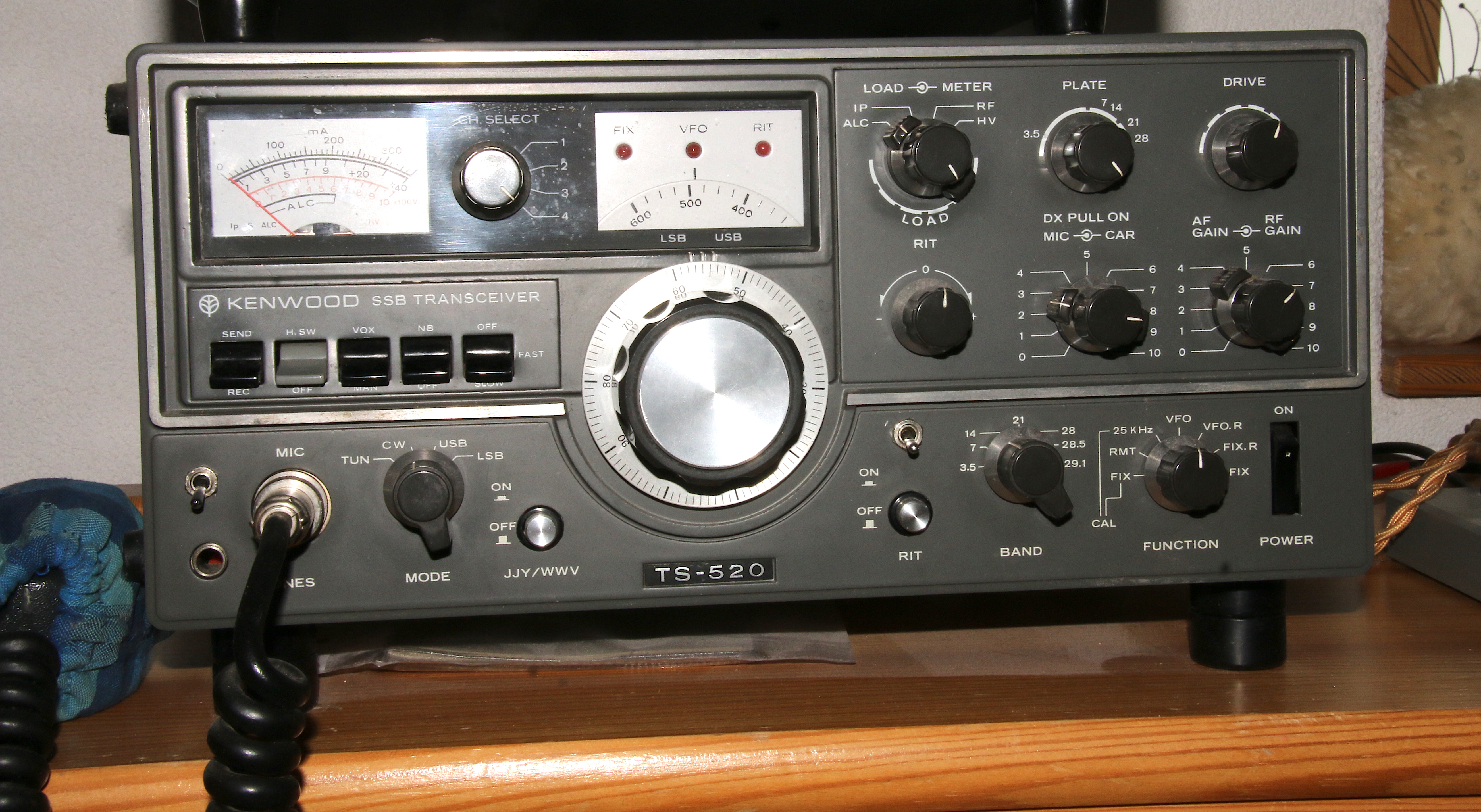 Kenwood TS-520